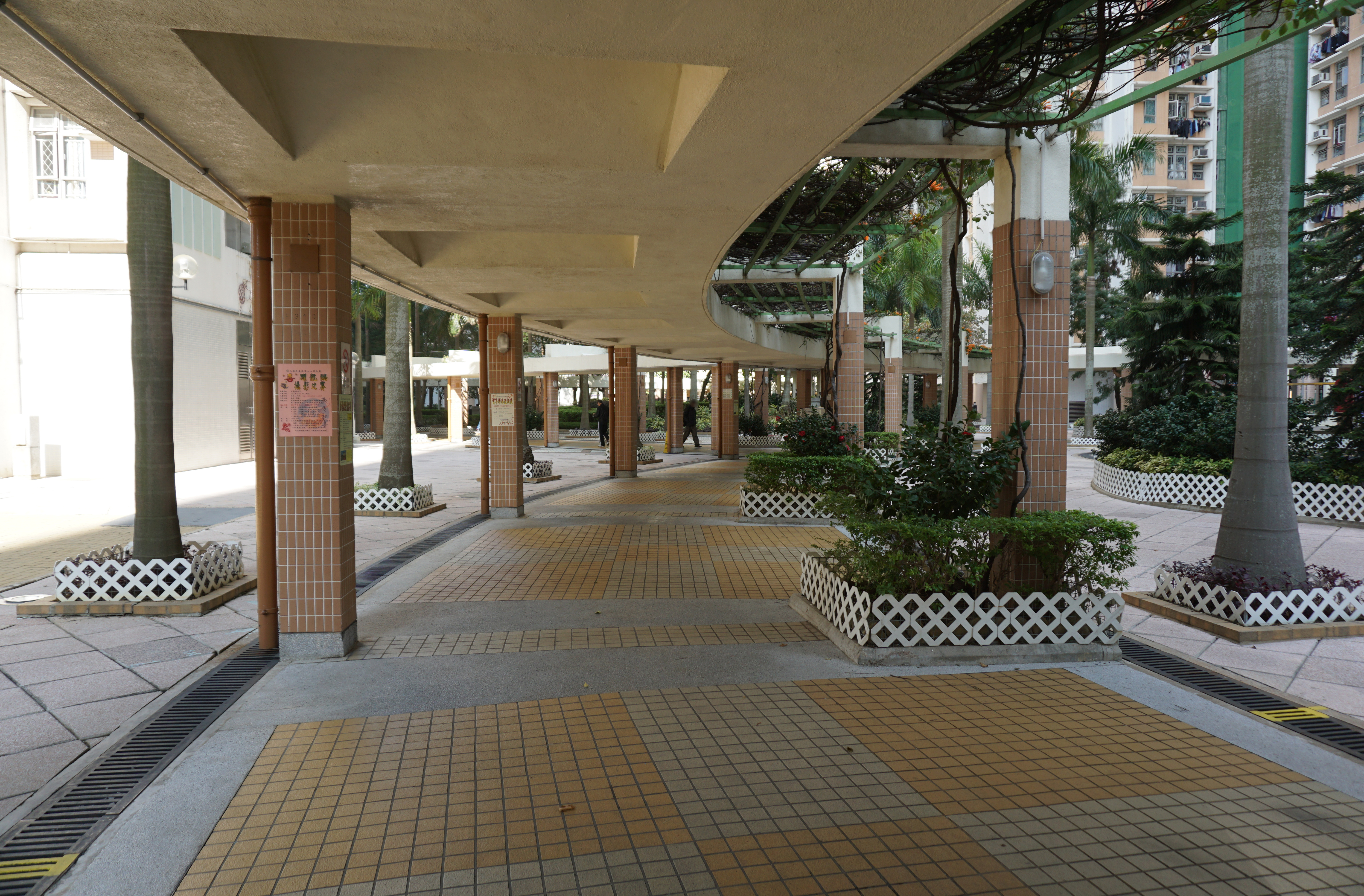 Tin Shing Court in Tin Shui Wai, Hong Kong.